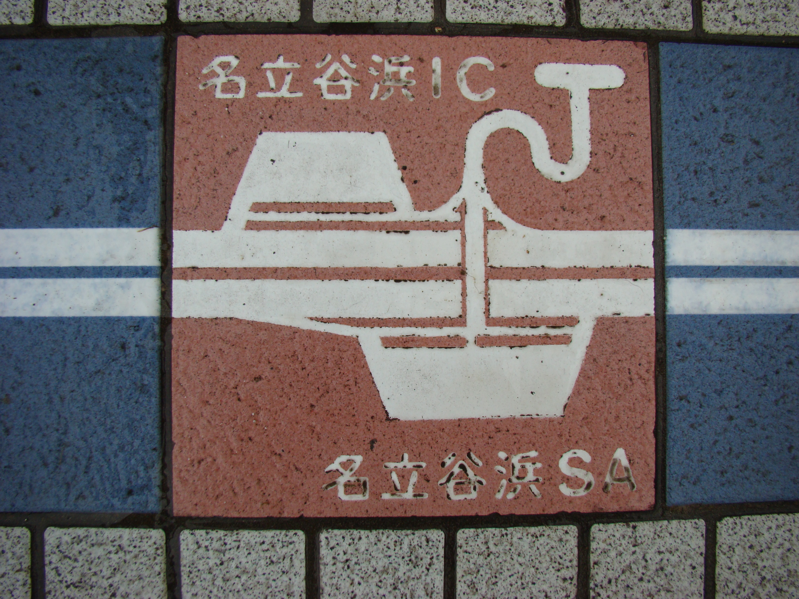 The tile which designed a shape of the Nadachi-Tanihama Service Area and Nadachi-Tanihama Interchange（Hokuriku Expressway）（There is this tile in Hokuriku Expressway Nadachi-Tanihama Service Area.）. Place - Chayagahara,Joetsu City,Niigata Prefecture,Japan Date - August 9, 2009 Format - JPEG, 3264x2448pixel, 24bit colors. Photographer - NALA Wiki (talk)